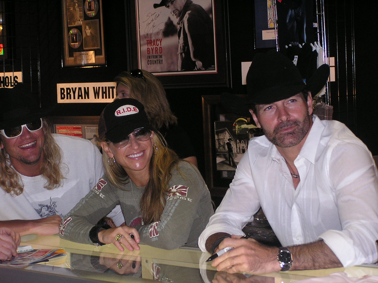 Ira Dean, Heidi Newfield, and Keith Burns of the band Trick Pony signing autographs at the Fan Club House Booth of the CMA Music Festival.